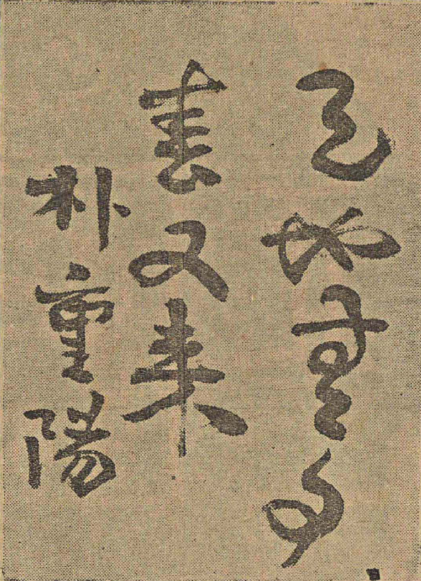 Park Jung-yang, Pen-Art